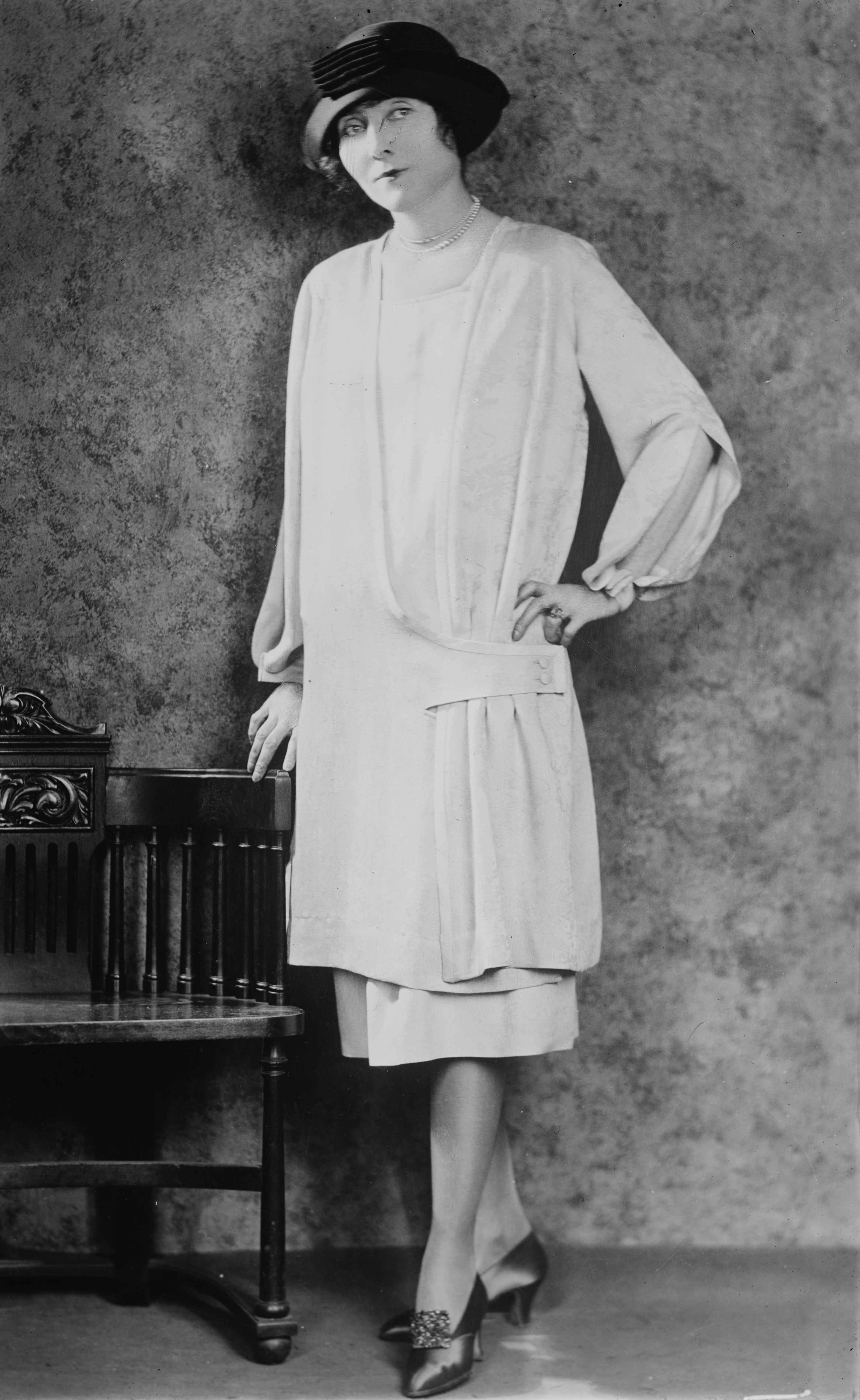 Chrystal Herne in 1918